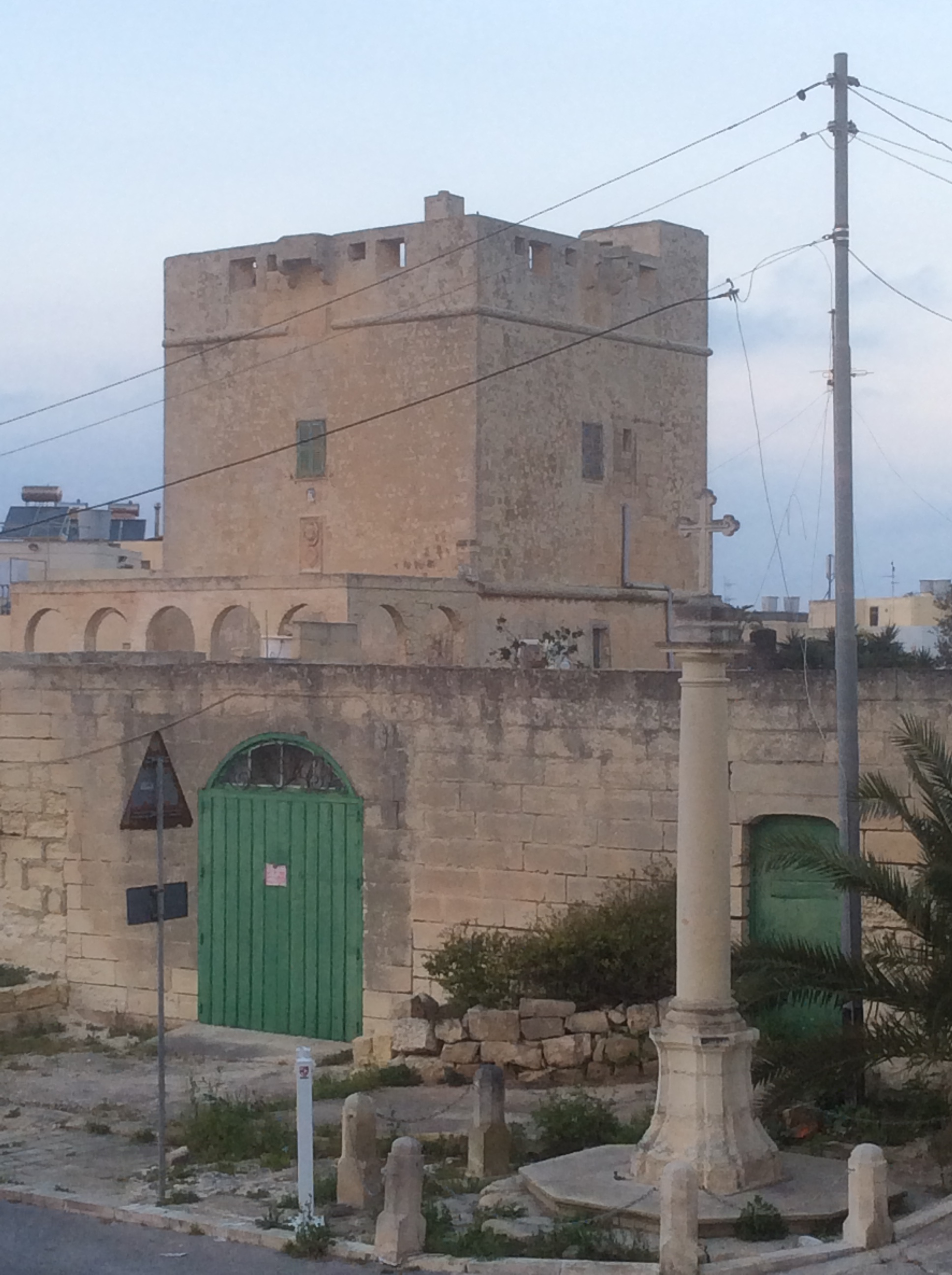 Column Stone and Captain Tower, in Naxxar, Malta